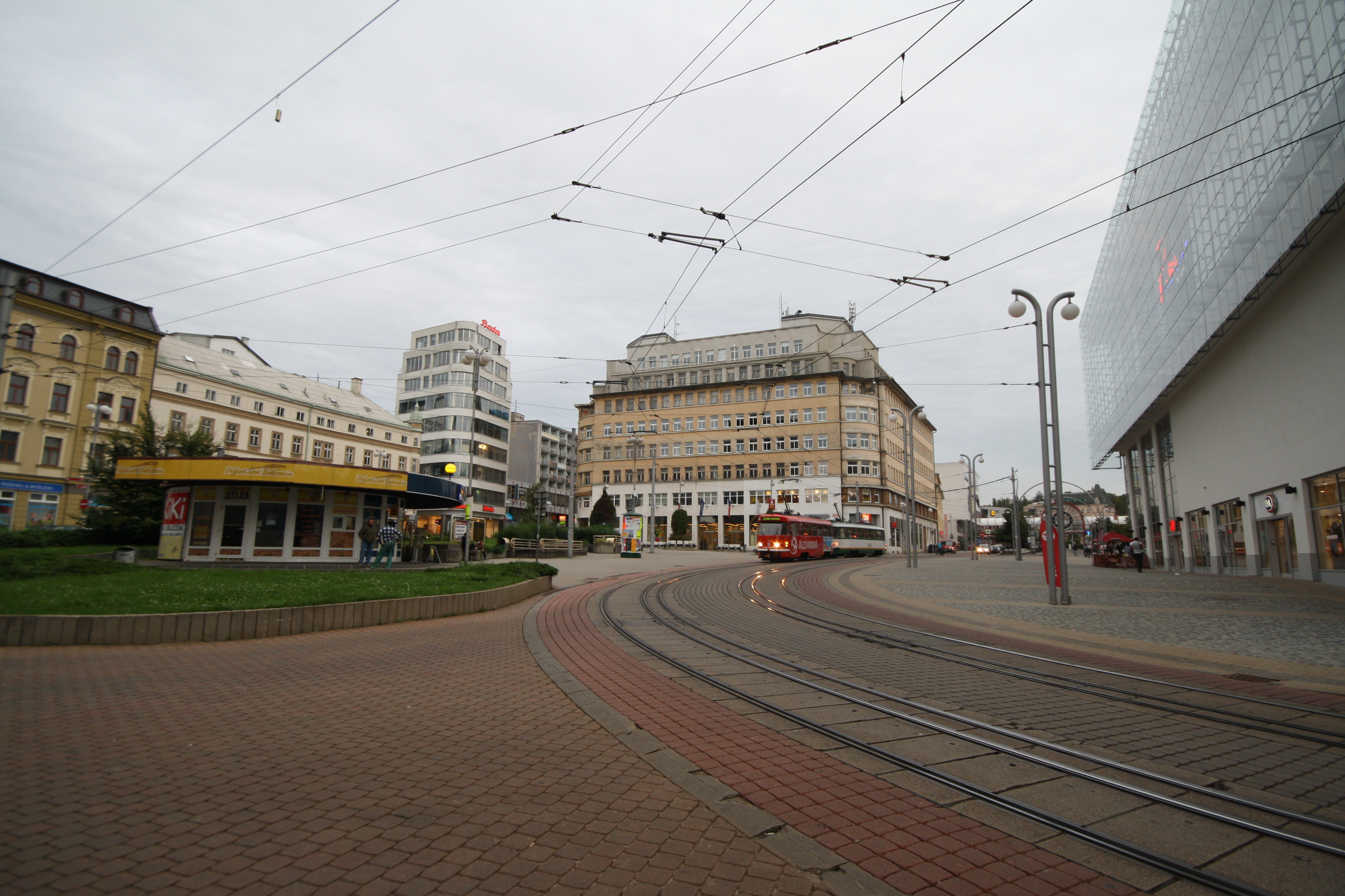 Soukenné square in Liberec.